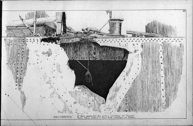 Detail of Battle Damage to HMS Defender, Battle of Jutland 31st May 1916. HMS Defender was an Acheron-class destroyer and served as part of the 1st Destroyer Flotilla.